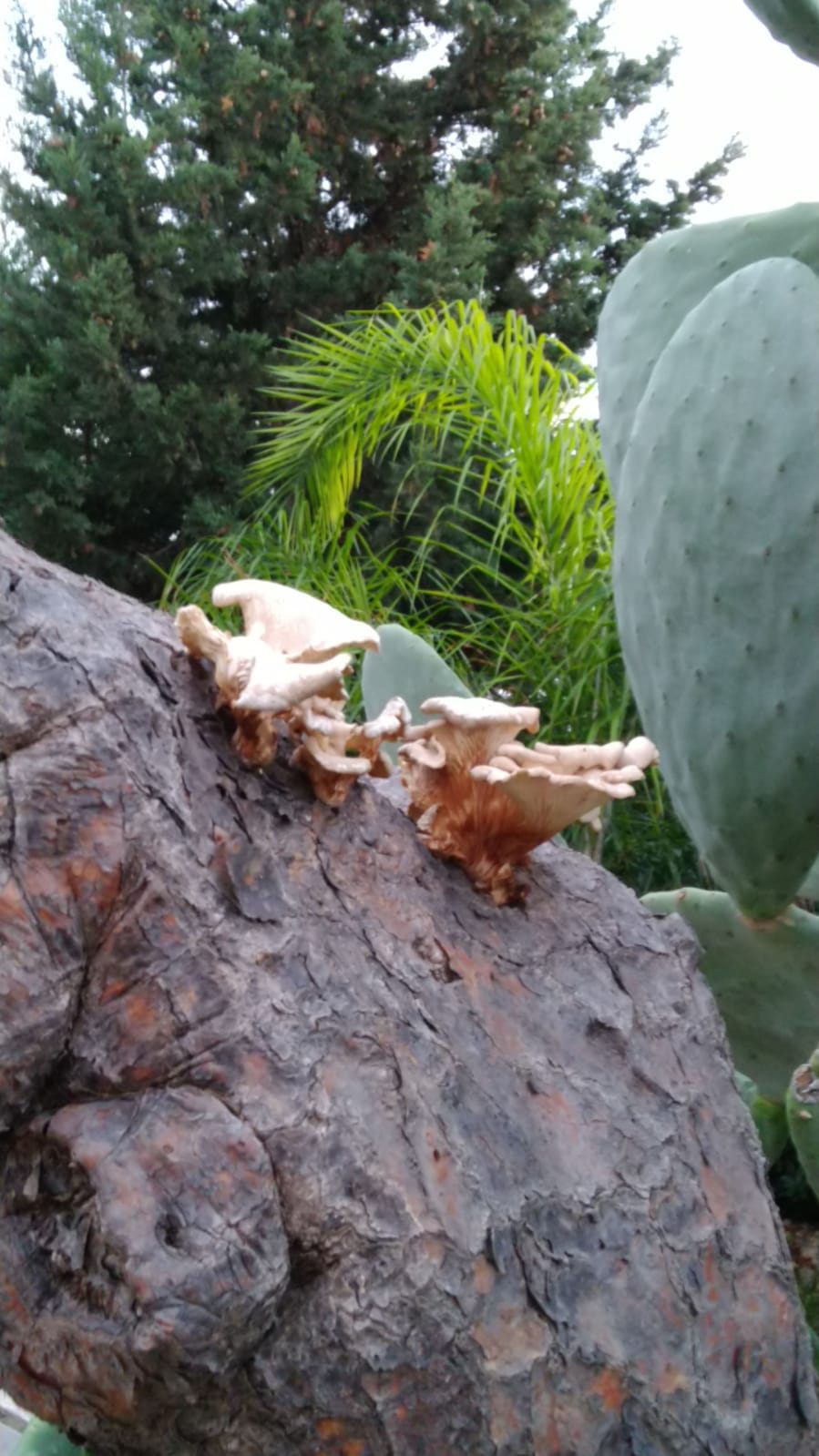 Pleurotus Opuntiae. This mushroom grew on dead remains of Opuntia